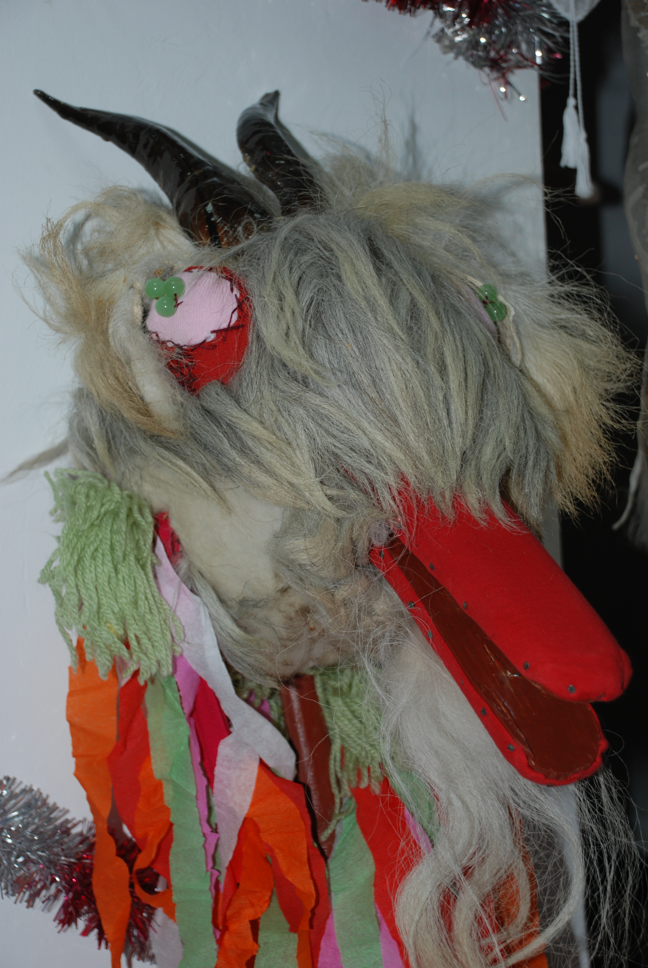 Mask of goat for the goat dance. Bucharest, Romania.